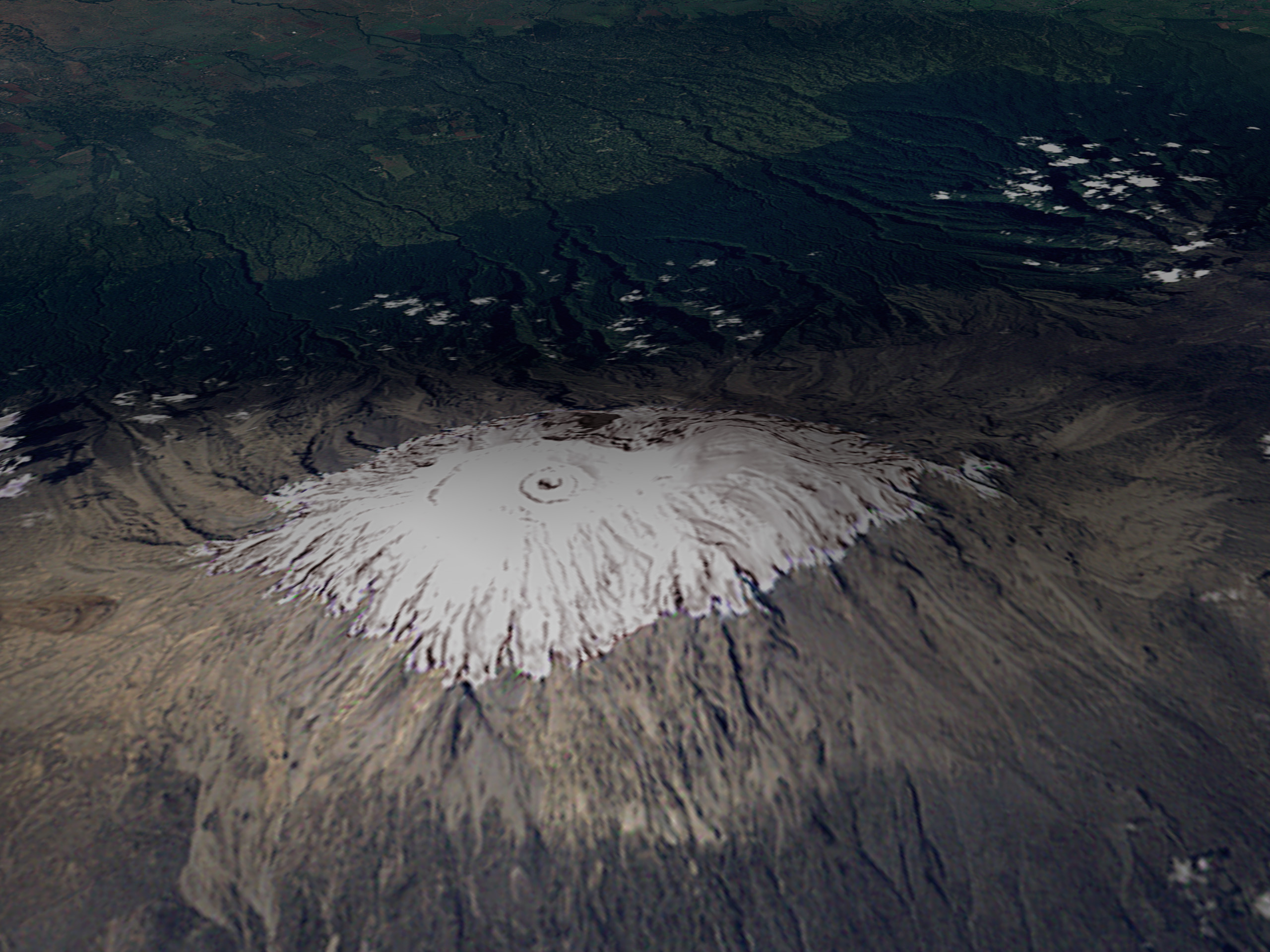 The ice on the summit of Kilimanjaro, which formed more than 11,000 years ago, has dwindled by 82 percent over the past century. The dramatic decline in Kilimanjaro’s ice cap is particularly remarkable given its persistence through many previous shifts in climate, including a severe 300-year-long drought that impacted human populations living in the area about 4,000 years ago. The scene shows heavily vegetated terrain (green colors) around the foot of Kilimanjaro, while the vegetation is relatively sparse up the flanks of the 5,895-meter-tall (19,335-foot) stratovolcano. The light browns at higher elevations show mostly rock and bare land surface, revealing the crisscrossing drainage patterns etched into Kilimanjaro’s face over the millennia by rain and snowmelt. Here, the images have been draped over a digital elevation model to give a better sense of the mountain’s three-dimensional shape.